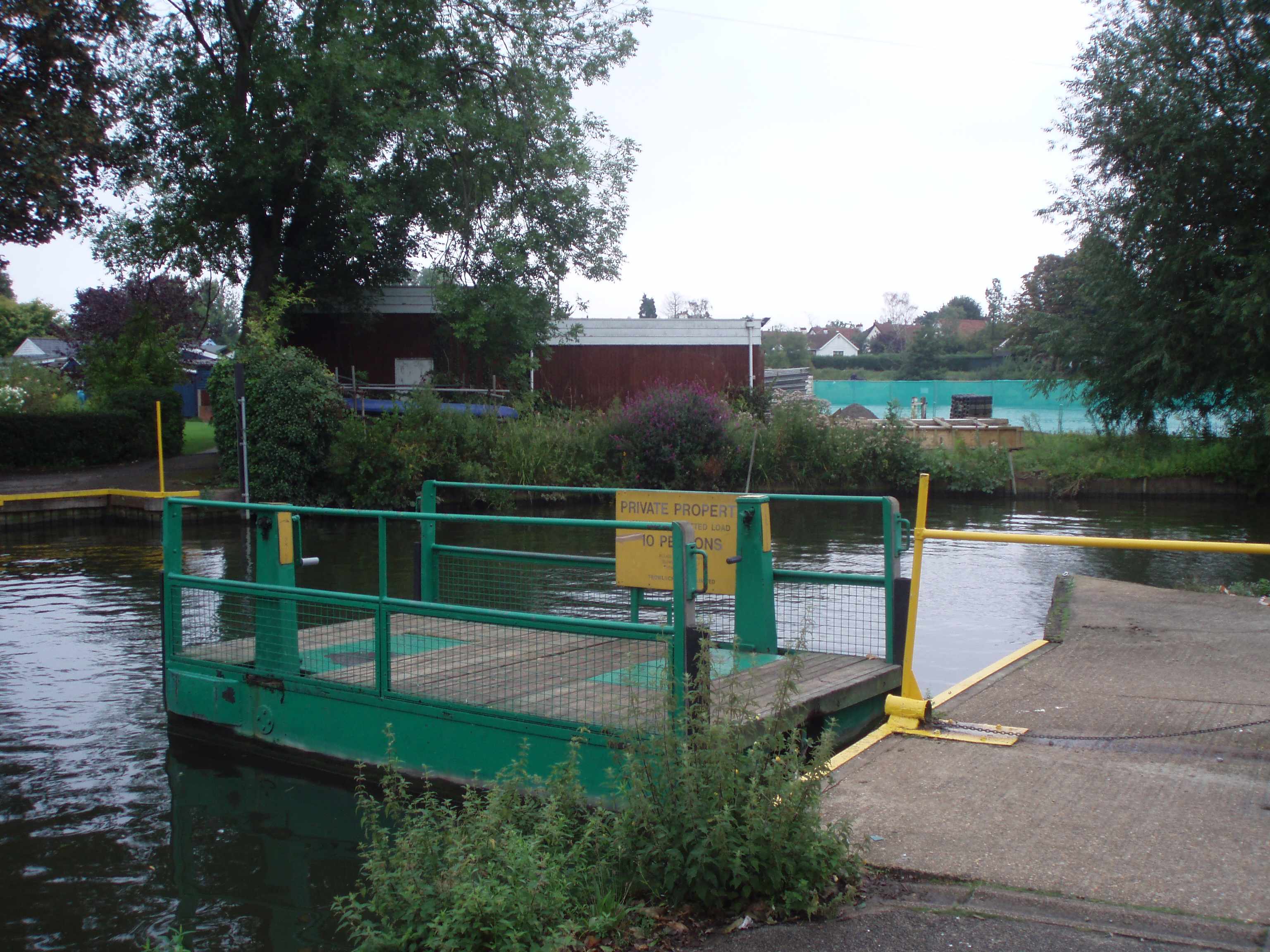 Trowlock Island chain ferry. A remarkable thing, it only takes a few seconds winding as you go but it gives the residents a privacy many dream of.